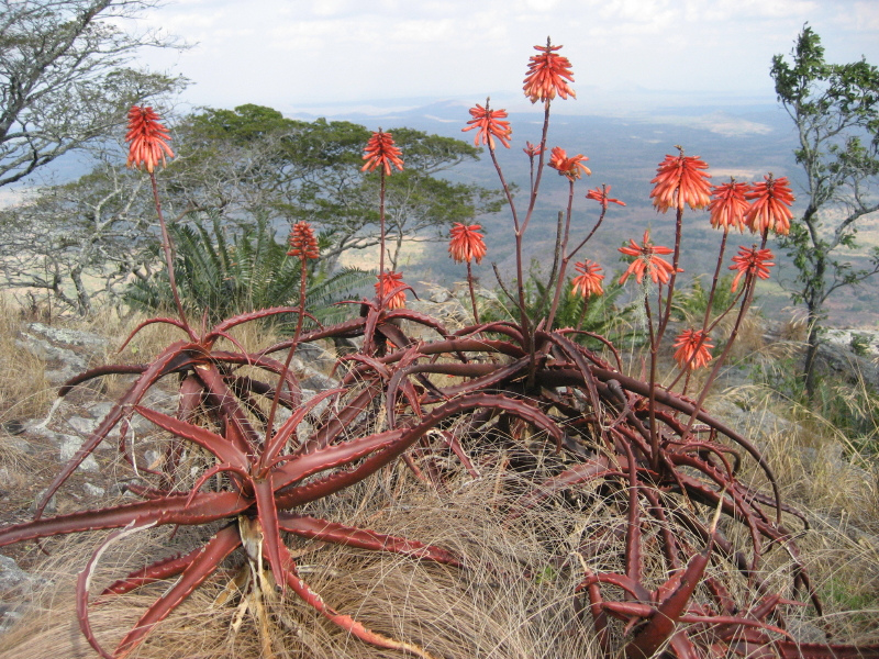 View from Mount Chuala with flowering Aloe cameronii and Encephalartos.